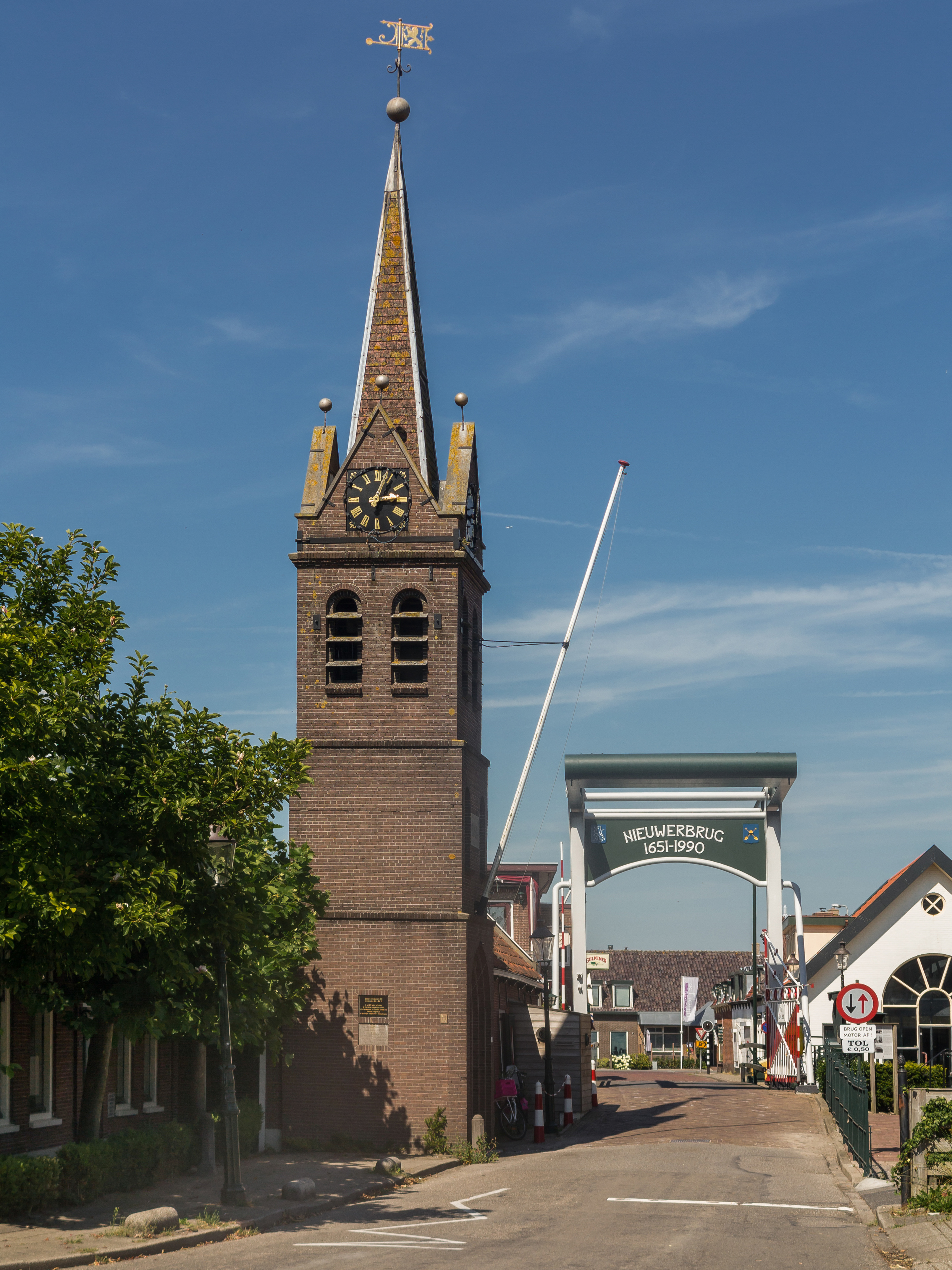 Nieuwerbrug, tower (de Klokketoren or de Onafhankelijkheidstoren) with bridge